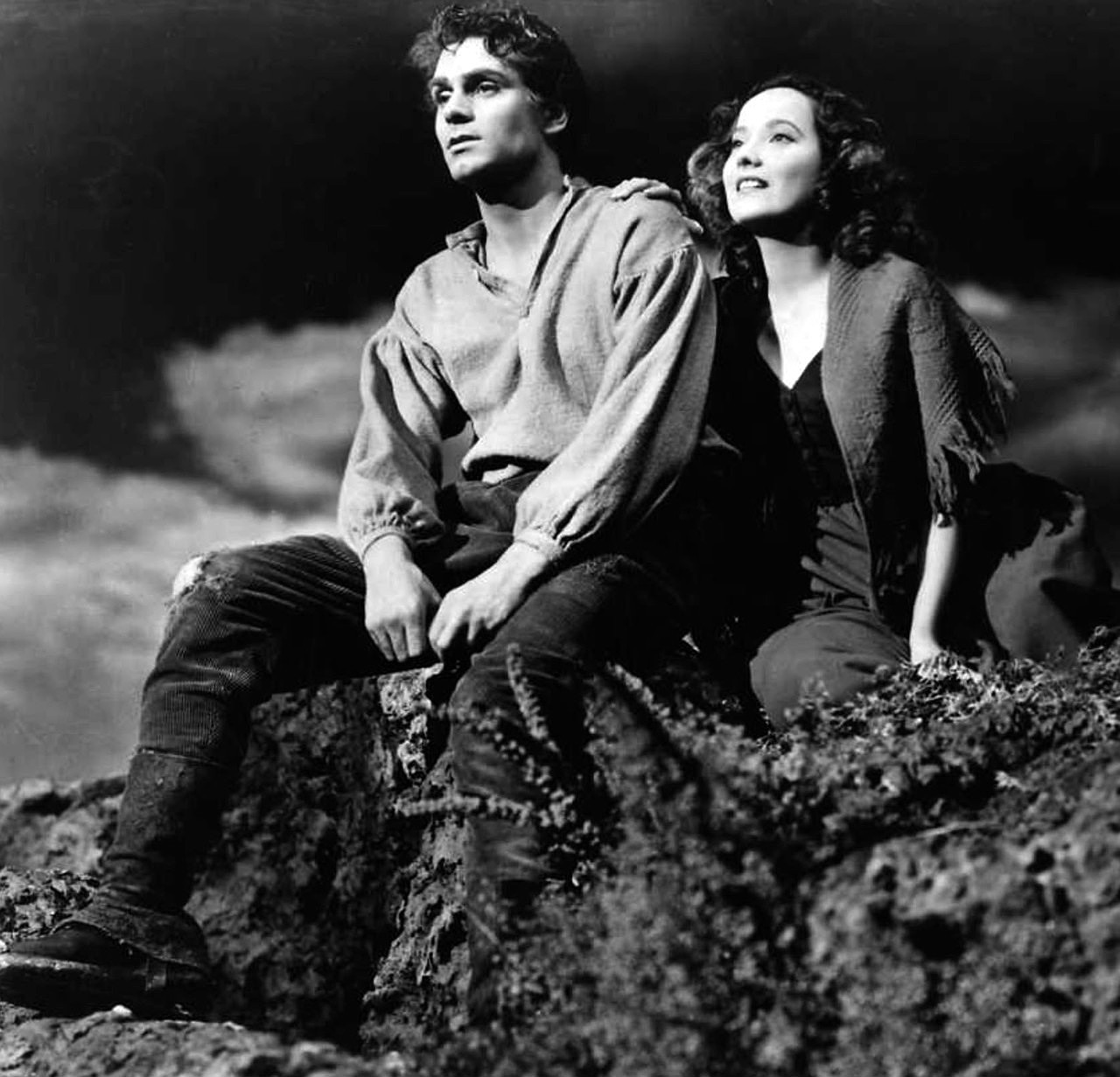 Photo of Sir Laurence Olivier knighted 1947-page 144 and Merle Oberon from the 1939 film Wuthering Heights.